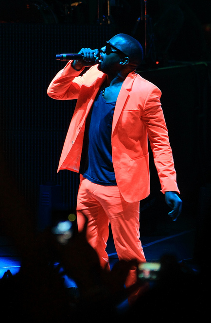 Kanye West performing "Jesus Walks" at Singfest on August 5, 2010 in Singapore.